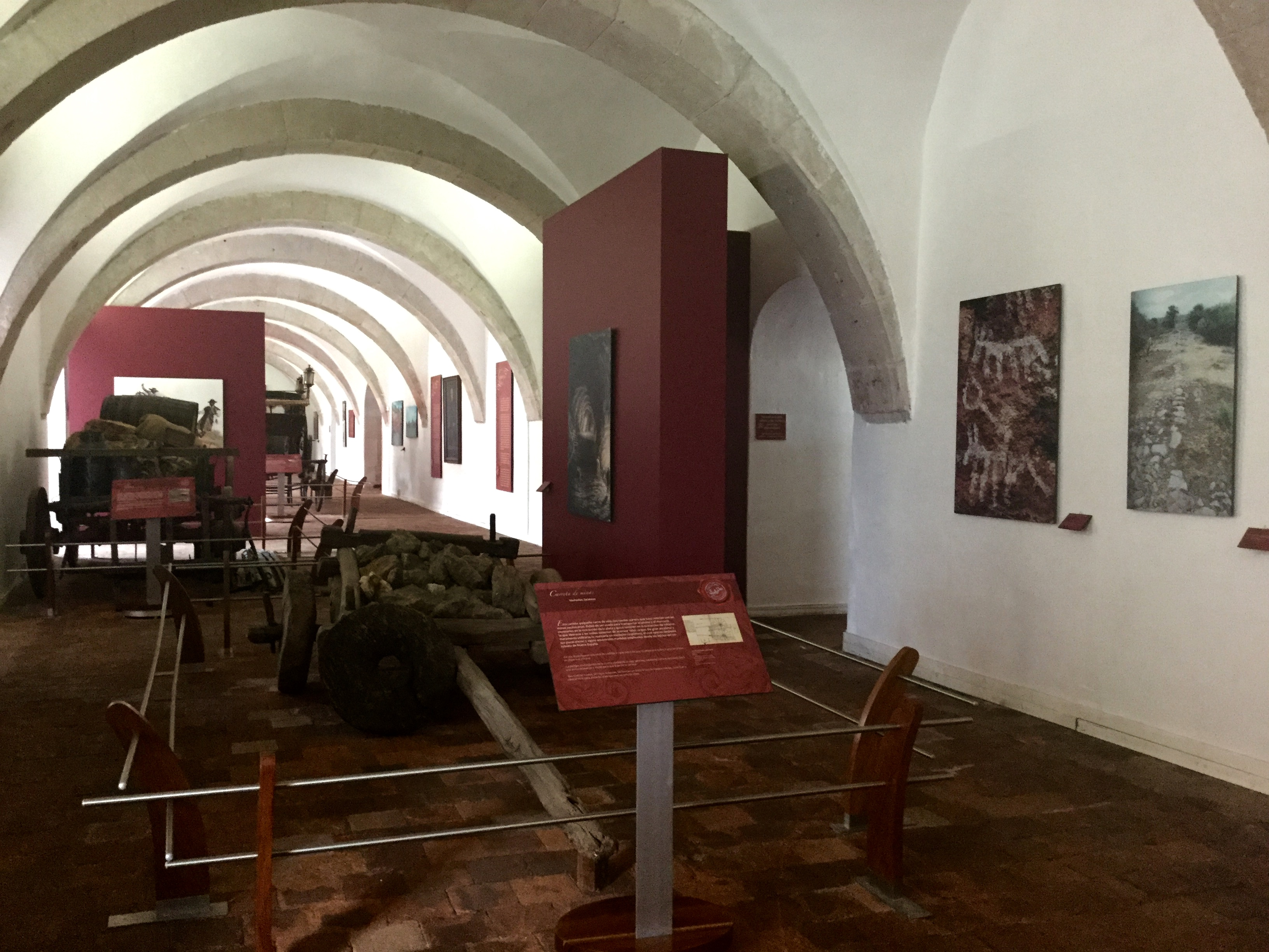 Parte de la exposición Camino Real